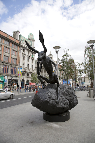 Giant hare, Dublin's O'Connell Street.